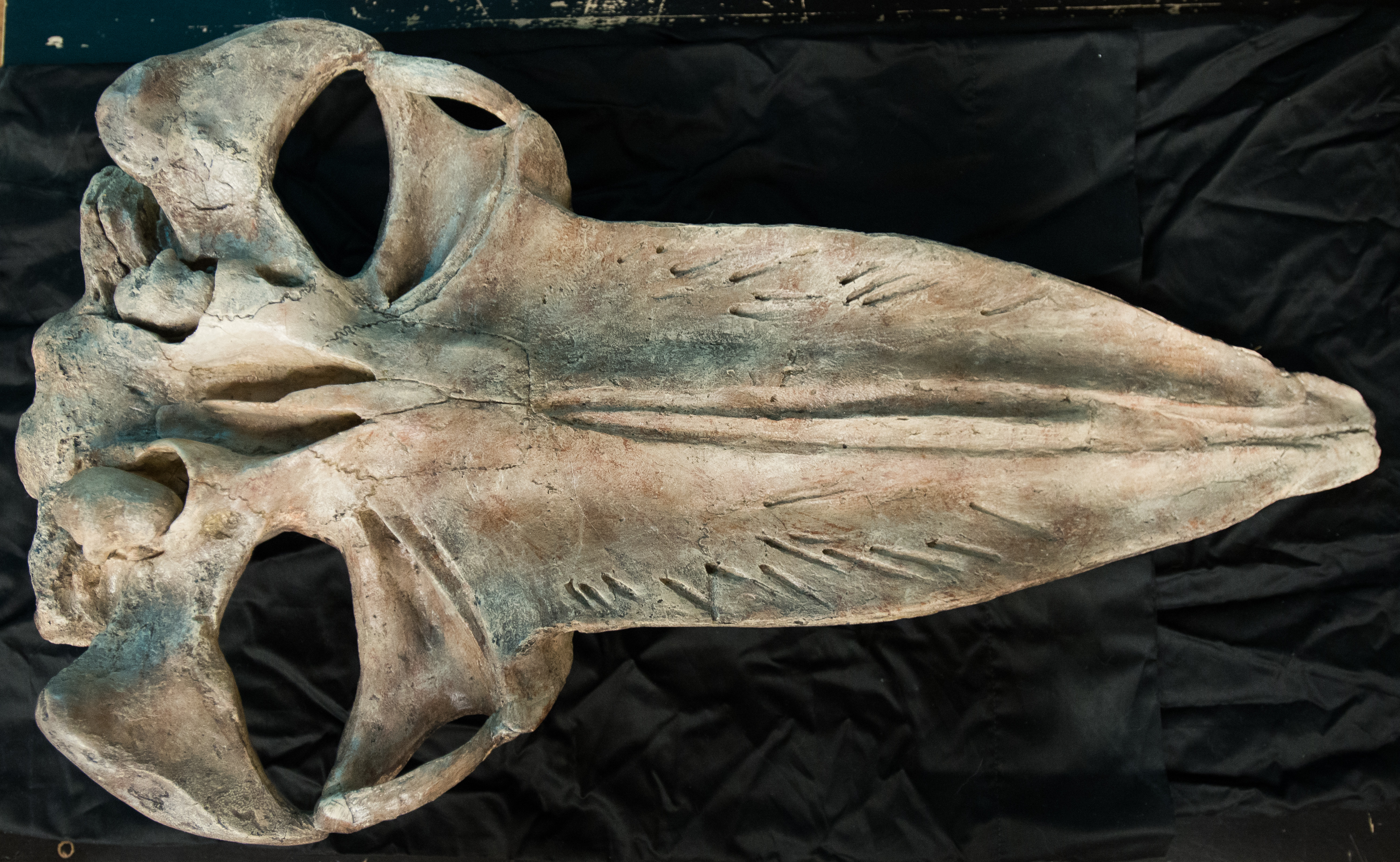 Buttercup is the name of a young fossil whale (Diorocetus hiatus) that Roanoke College students helped find and excavate.